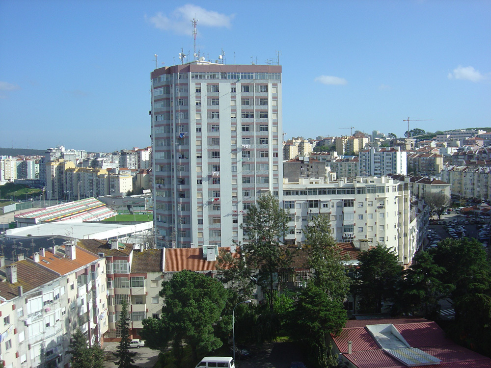 City of Amadora,Portugal